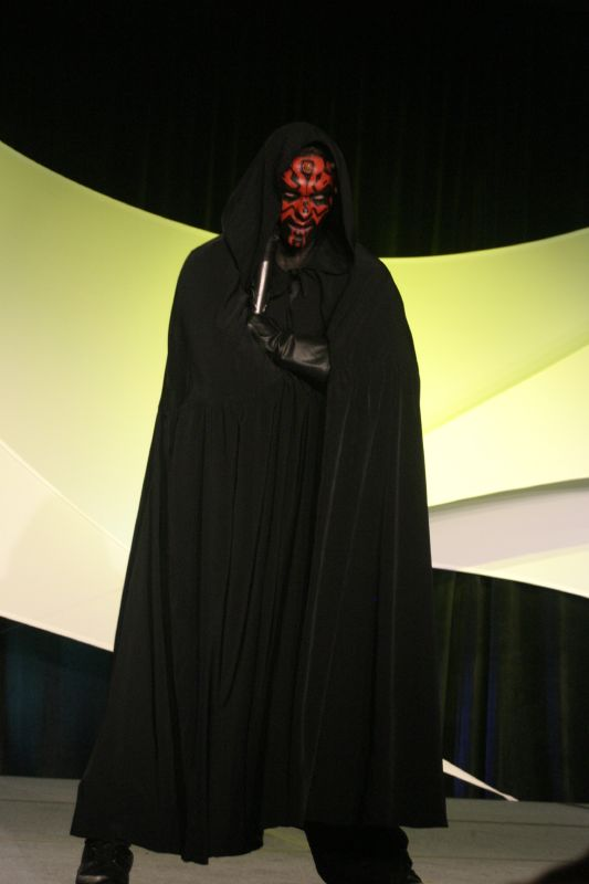 This picture is a cosplay of Darth Maul. Photo by Scott Reuther.